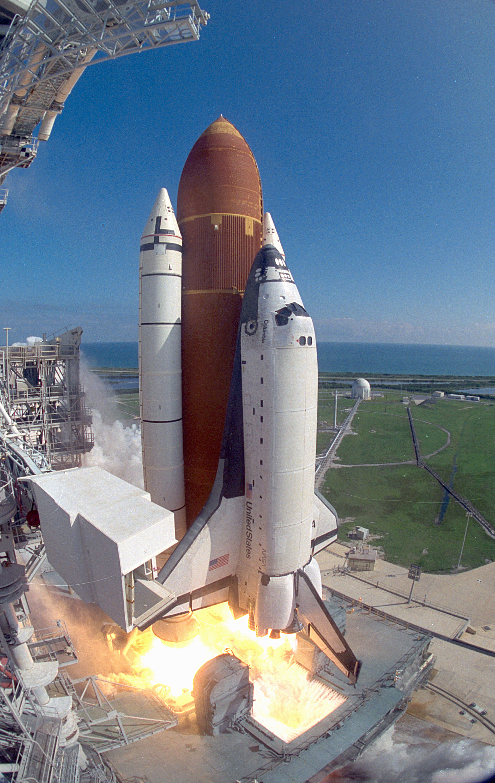 The longest Space Shuttle flight in program history begins at 10:53:10 a.m. EDT with a flawless liftoff from Launch Pad 39B. During the 14 day flight of STS-58, a seven member crew will study extensively the adaptation of the human body to the near-weightless environment of space. Mission Commander is John E. Blaha; Pilot, Richard A. Searfoss; Payload Commander, Dr. M. Rhea Seddon; Mission Specialists, William S. McArthur Jr., David A. Wolf, and Shannon W. Lucid; and Payload Specialist, Martin J. Fettman.